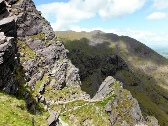 The "gap" of the Heavenly Gates through which climbers can descend from Carrauntouhill. The Howling Ridge rock climb is the ridge to the left (it starts at the Gates), while the Hag's Tooth Ridge in behind in dark shade; Knockbrinnea is the mountain in the far background.